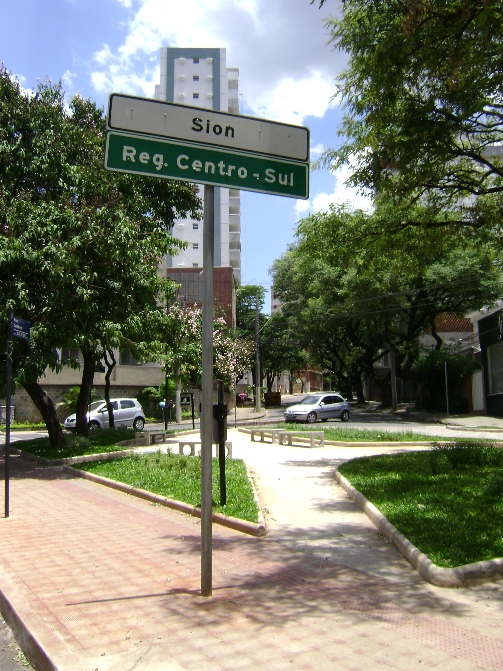 Sign showing entrace of Sion neighborhood, in Belo Horizonte, Brazil.